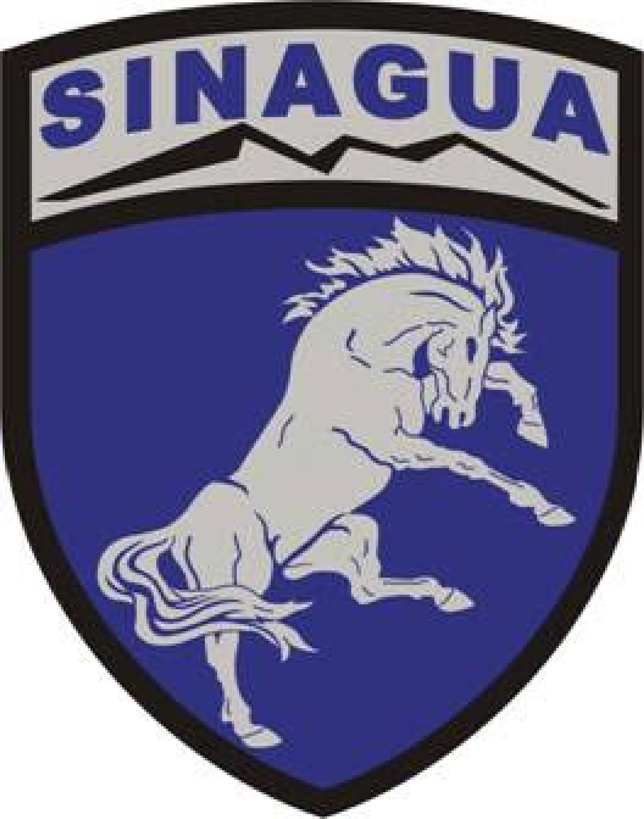 Flagstaff, Arizona, Sinagua High School JROTC Shoulder Sleeve Insignia